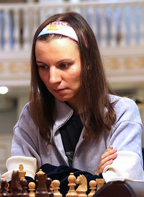 Daria Charochkina at Superfinal of the Russian Chess Championship 2019